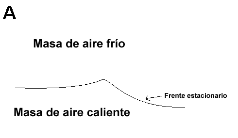 Imported from the english wikipedia.